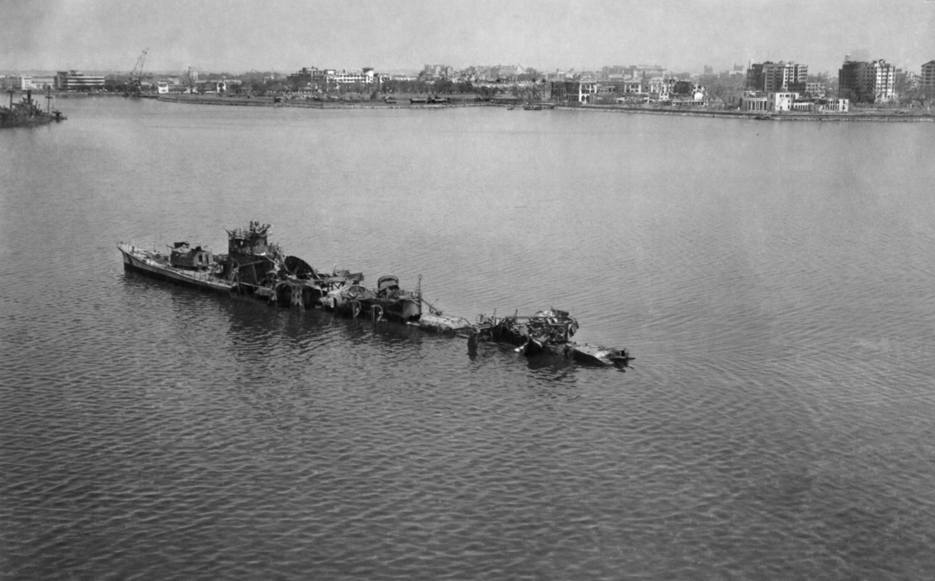 February 1945: the Japanese destroyer Okinami is lying, ruined, in shallow waters in Manila Bay, where U.S. carrier-based planes sank her on November 13th, 1944.